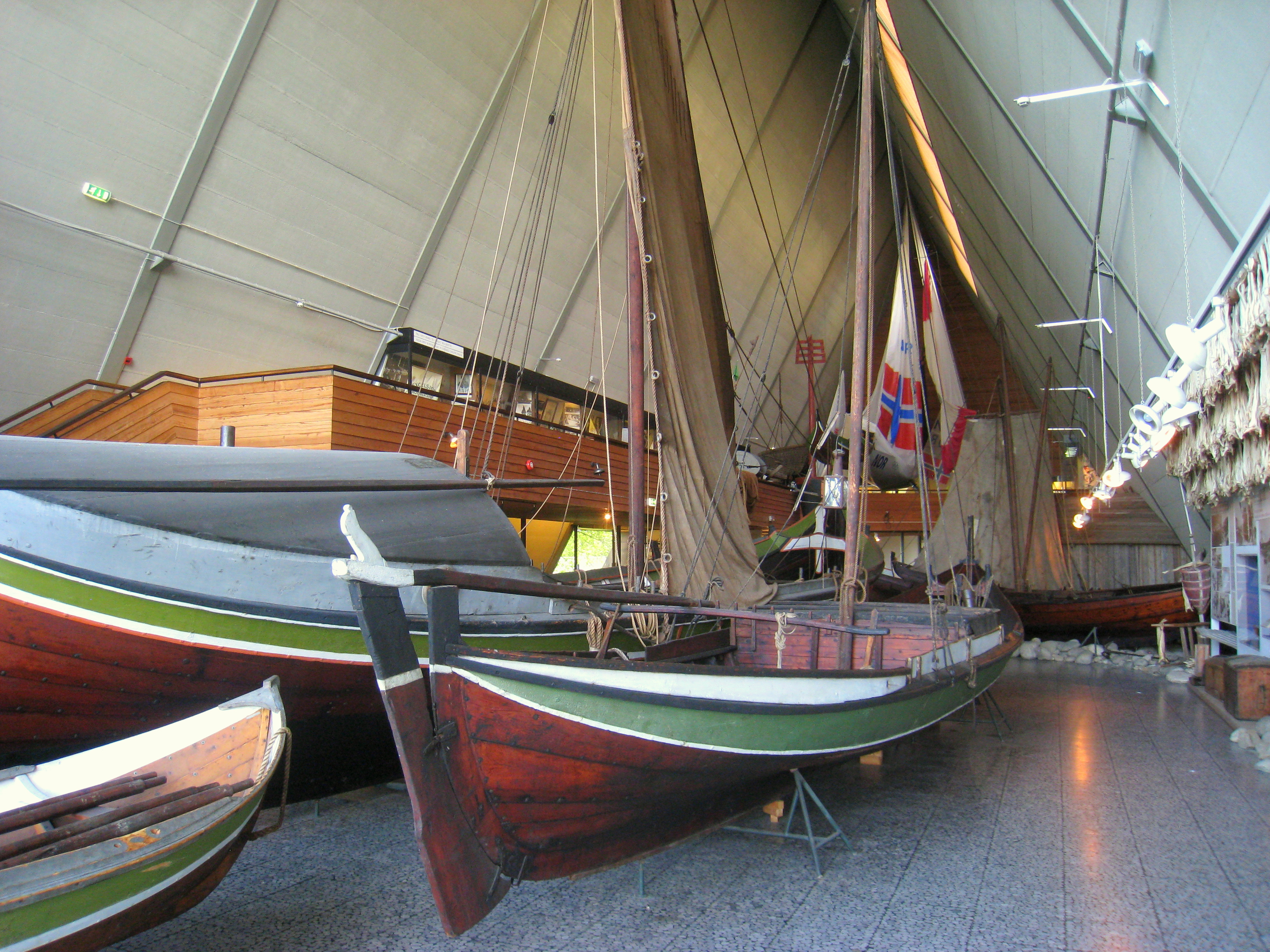 Local boats in the Fram Museum, Oslo, Norway.